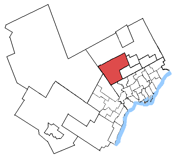 Map of the Vaughan electoral district. Based on Earl Andrew's maps, created by SimonP.